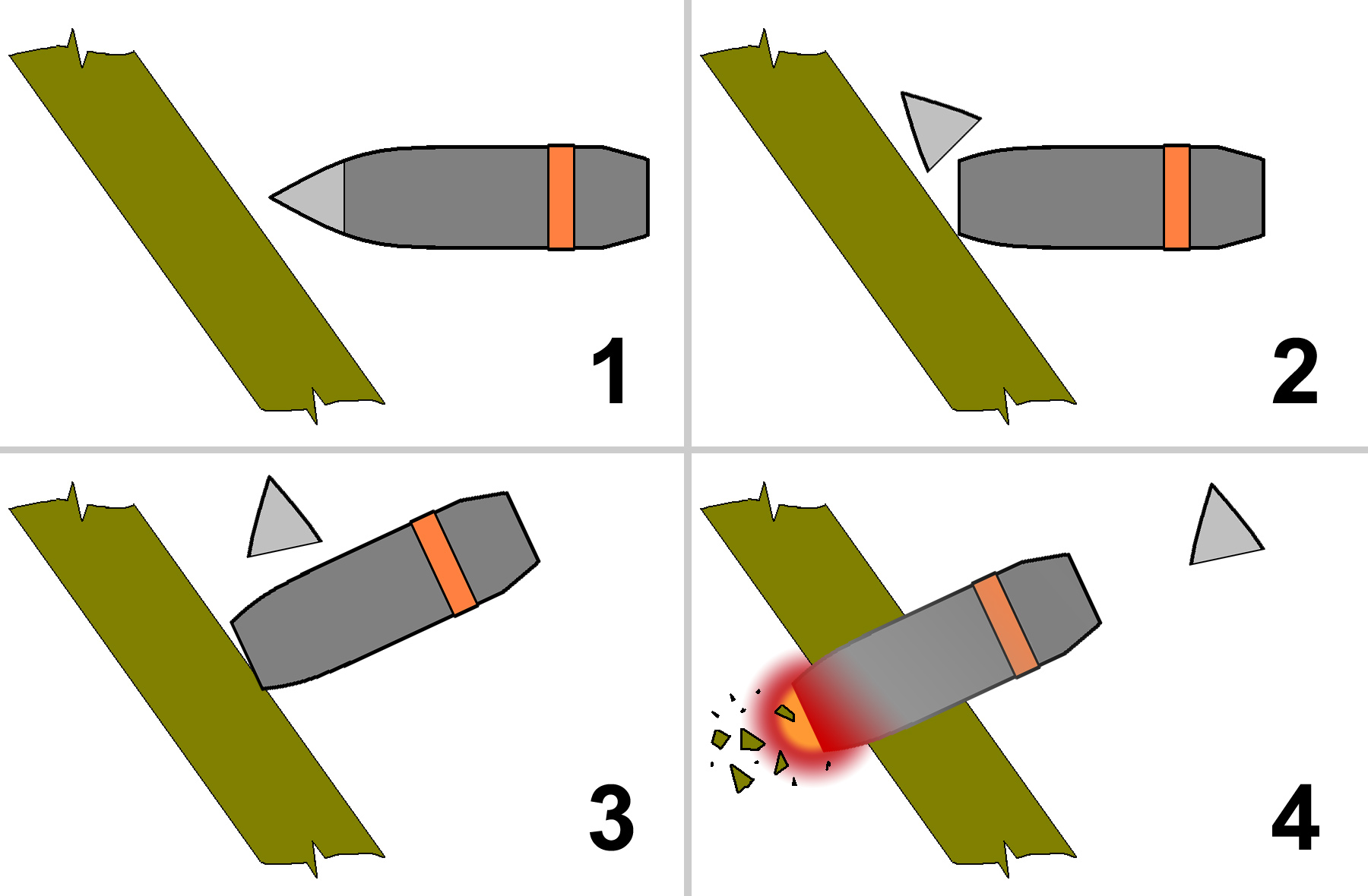 Armour-piercing with a blunt nose projective penetrate armor.